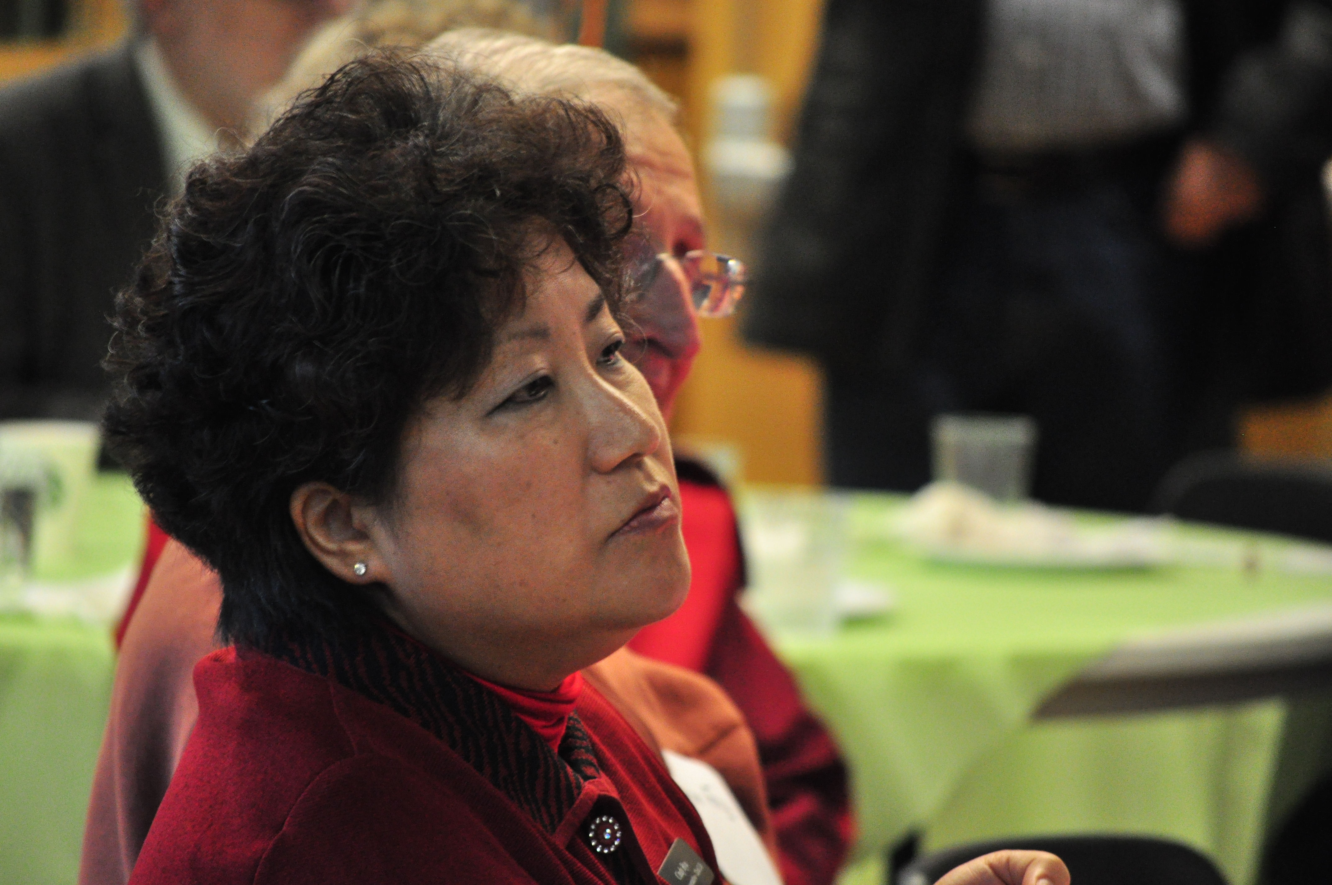 Washington State Representative Cindy Ryu attending State Attorney General Bob Ferguson's annual Shrimp Feed fundraiser.